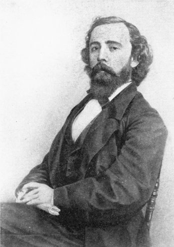 Portrait of James F. Bowman, given to poet Charles W. Stoddard, and published in the Overland Monthly in 1908.